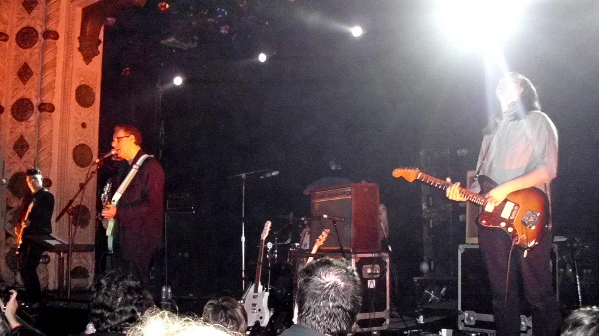 Wire performing at Metro in Chicago 2011